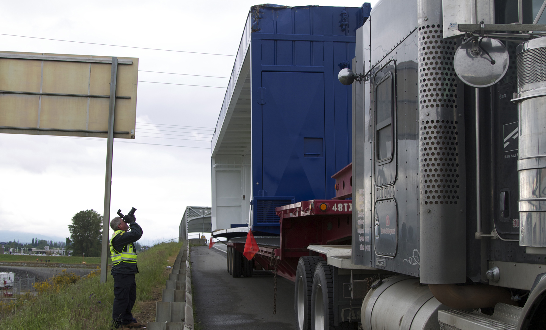 An NTSB investigator examines the truck that struck the Skagit River Bridge before its collapse